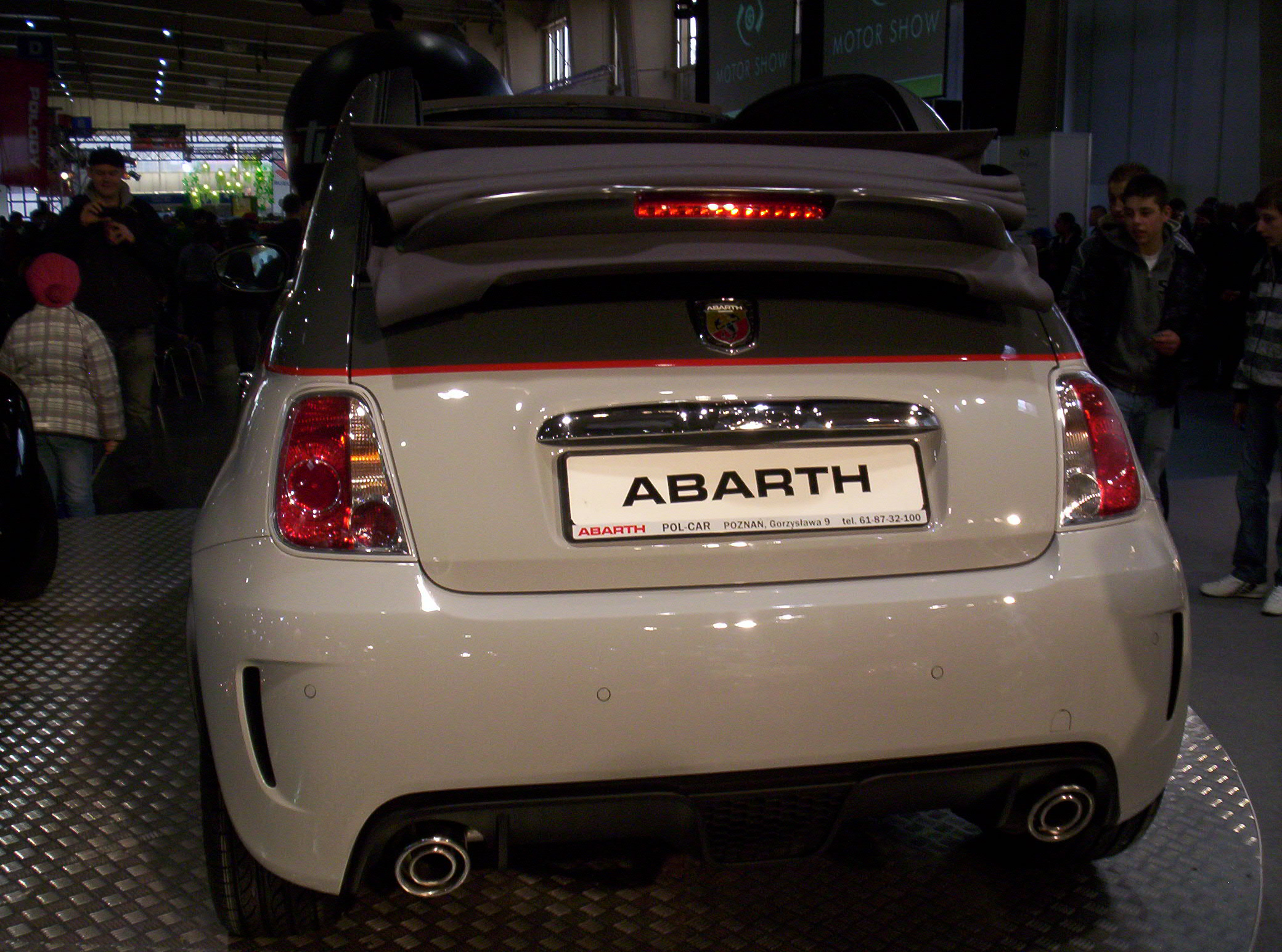 Abarth 500C at Motor Show 2011 in Poznań